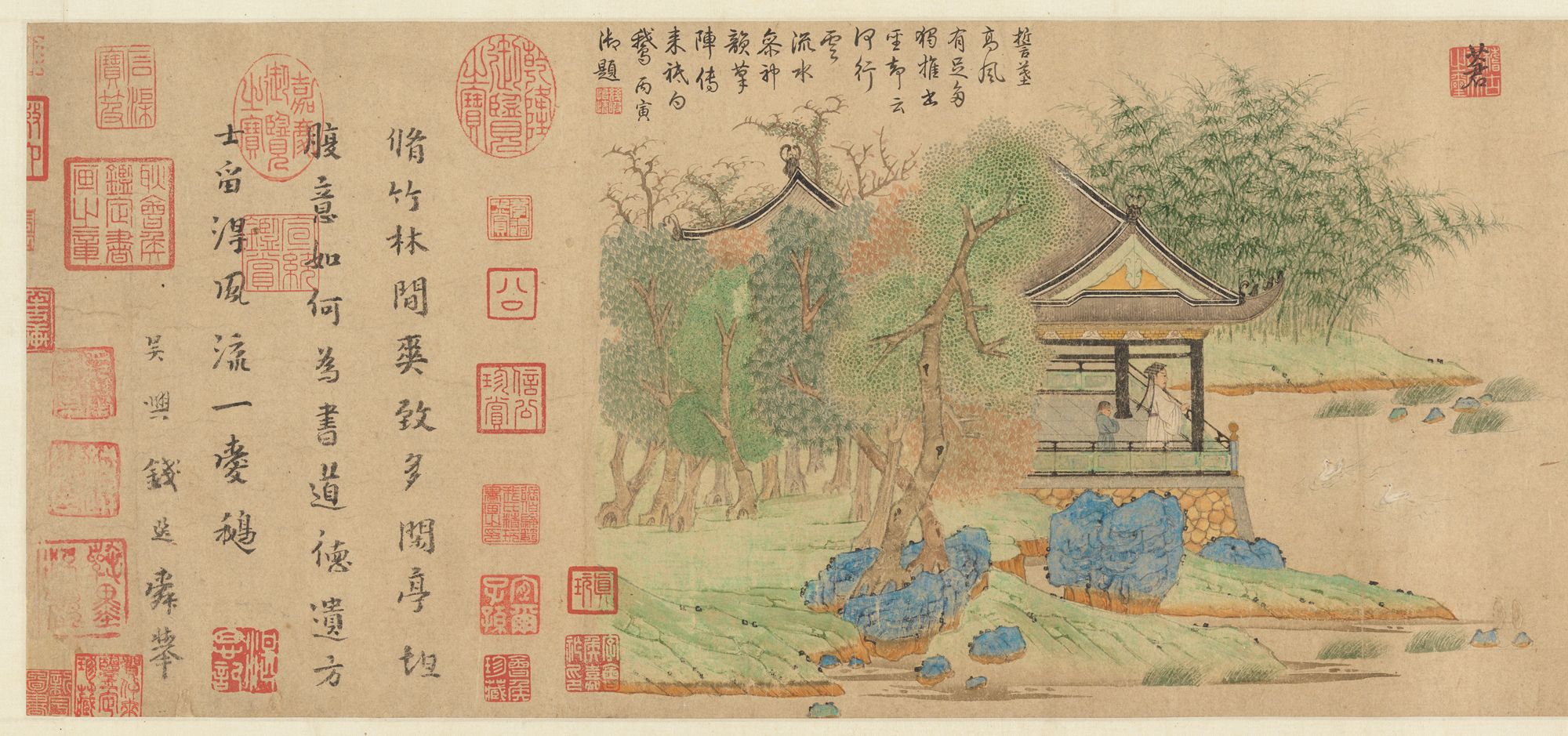 Qian Xuan. Wang Xizhi Watching Geese. (23,2x92,7cm) Section. Metropolitan Museum of Art, N-Y